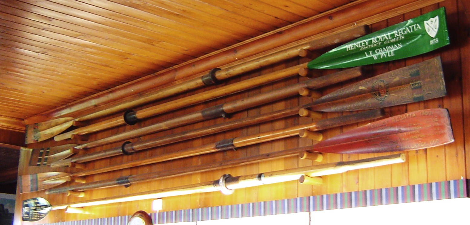 Trophy oars of the seven founding member clubs of the Remenham Club, in the 1847-1960 conventional 'square' style, which is a misnomer as with nearly long triangular spoons but which relates to their flatness.